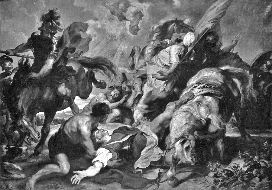 'The Conversion of Saint Paul', by Peter Paul Rubens, ca. 1616-1617. The painting was destroyed or disappeared in Berlin in May 1945, in the Friedrichshain flak tower fire. - Dimensions: 261 x 371 cm